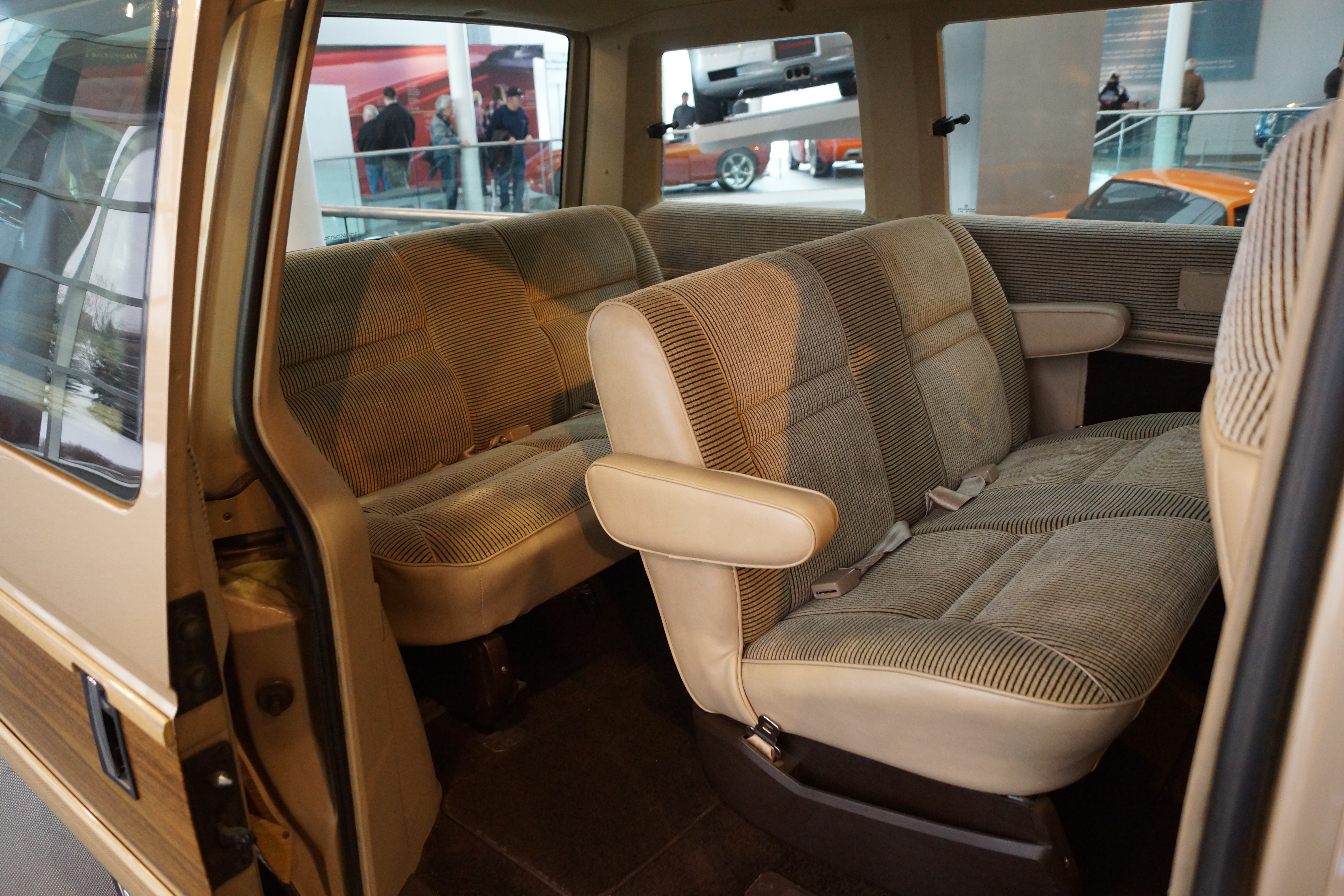 Click here for more car pictures at my Flickr site. Or here for my Car Crazy Tumblr site. Back on November 4th, Hemming's Blog posted an article about the closing of the Walter P. Chrysler Museum . I had missed a couple other opportunities with the WPC Club and others to get into the museum, after it had closed to the public. I did not want to regret missing this last chance to see all of the vehicles before being spread out to other facilities. I trekked from Western Minnesota to Eastern Michigan during Winter Storm Decima. I missed the worst parts of the storm, but still had to endure the aftermath winds, sub zero temperatures and a lake effect snow storm. The trip was difficult, but well worth it. I got to see several Chrysler Corporation concept and show cars that I had only seen pictures of before. There were several clever interactive displays demonstrating various innovations over the years. Since it was the last chance, I duplicated several shots using different camera settings to see what produced better results. I wish I had invested in a strobe light diffuser for all of those indoor pictures. I have not had much experience or success in the past with indoor car images.